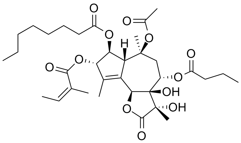 i made it myself in chemdraw.